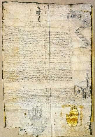 The Patent of Mohammed Granted to the Holy Monastery of Sinai